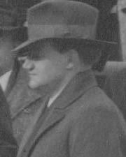 Heinrich Brandt, Mathematical Society Jena, visitors' conference at Abbeanum in Jena, 26th until 28th October 1930.